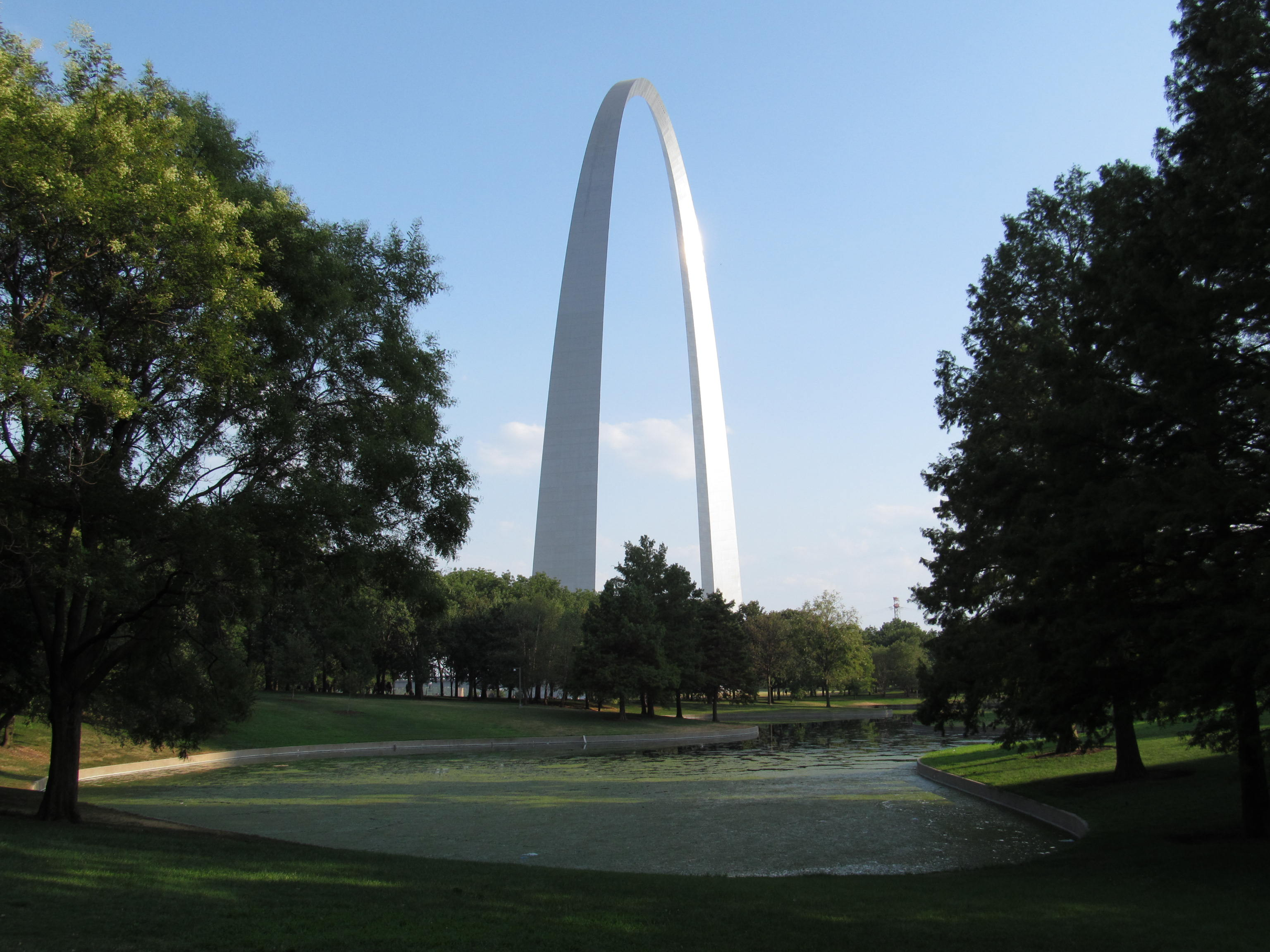 Gateway Arch - St. Louis, Missouri